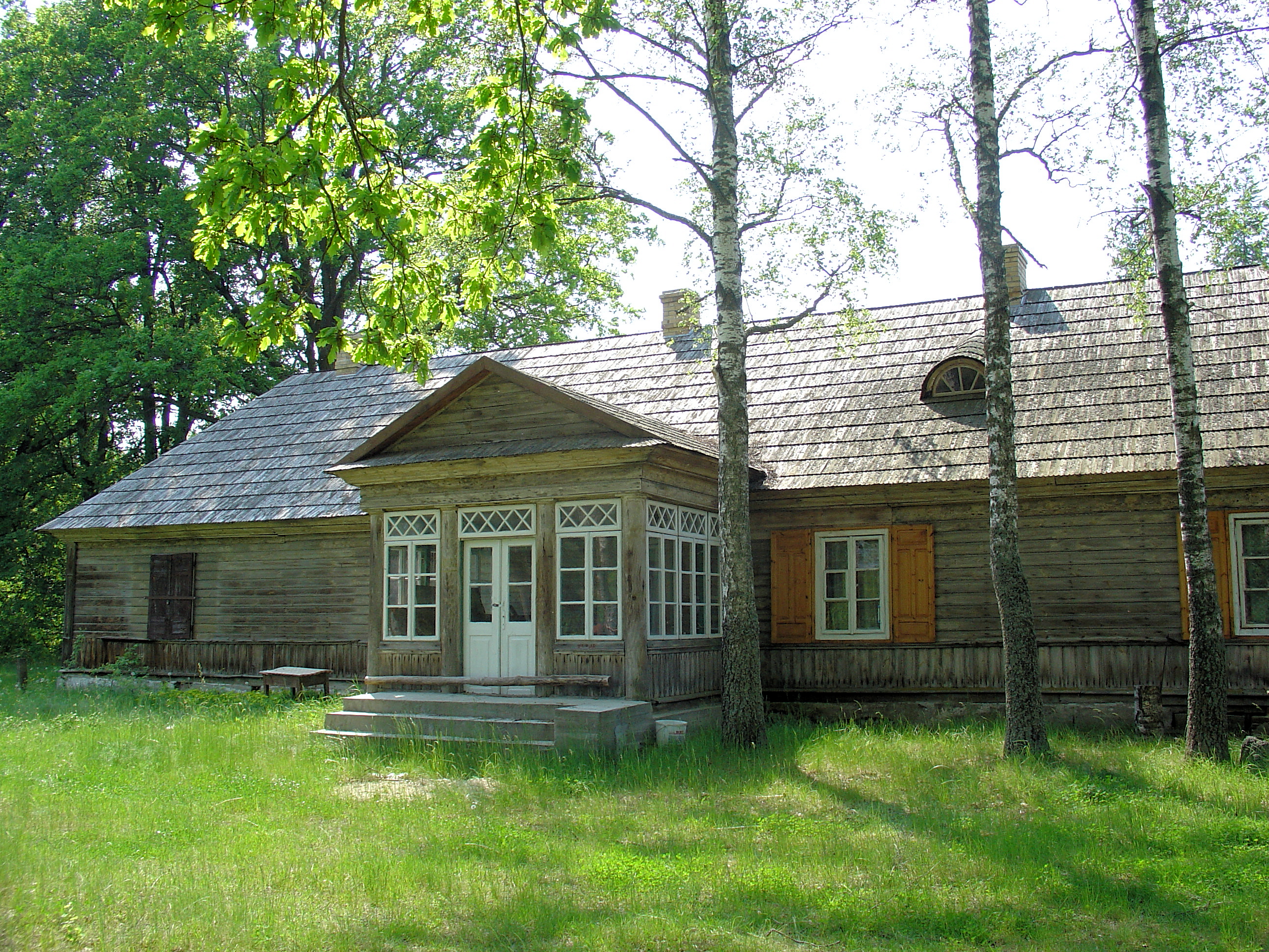 Manor house in Jodłówka